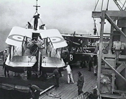 AWM caption : "Australia, 1926-1935. With its wings folded back, a Supermarine Seagull III of No. 101 Fleet Co-operation Flight RAAF is about to be lowered for safe storage into the hold of the seaplane carrier HMAS Albatross. The amphibious aircraft, recently returned from a flight, had been hoisted out of the water and aboard the ship by means of the ship's cranes. Several sailors and RAAF ground staff are assisting the operation."